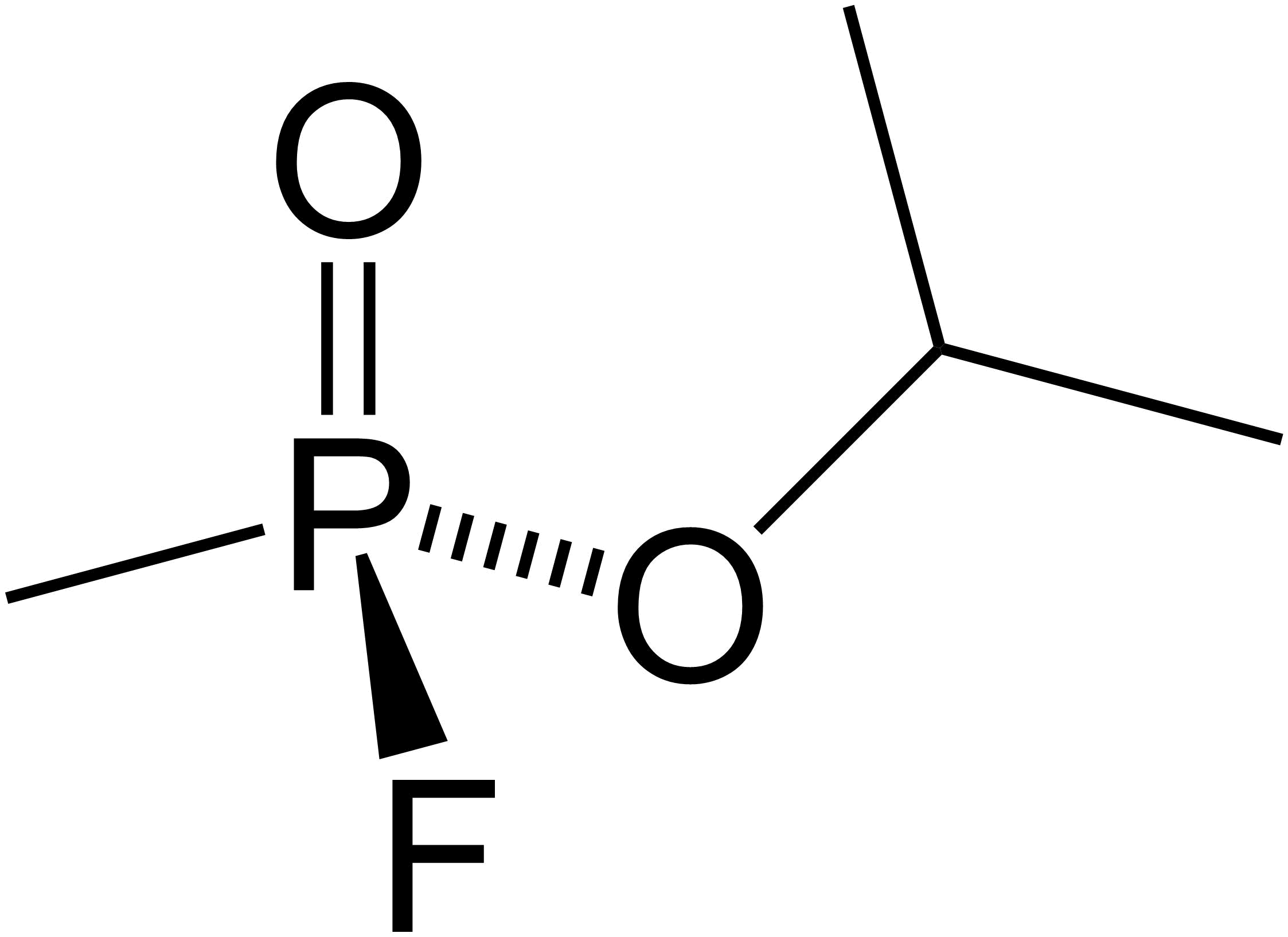 Sarin structure